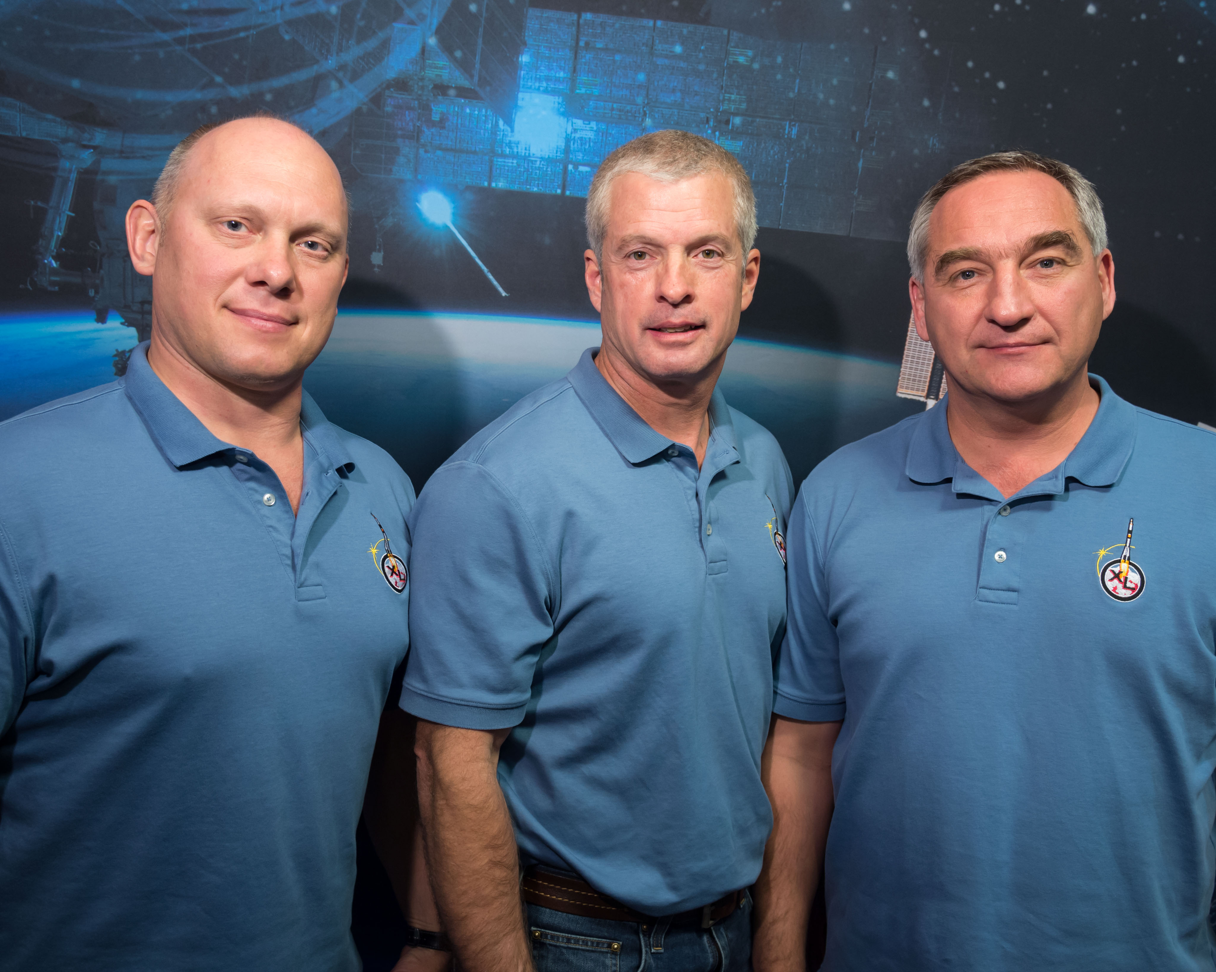 NASA astronaut Steve Swanson (center), Expedition 39 flight engineer and Expedition 40 commander; along with Russian cosmonauts Oleg Artemyev (left) and Alexander Skvortsov, both Expedition 39/40 flight engineers, pose for a portrait following an Expedition 39/40 preflight press conference at NASA's Johnson Space Center.